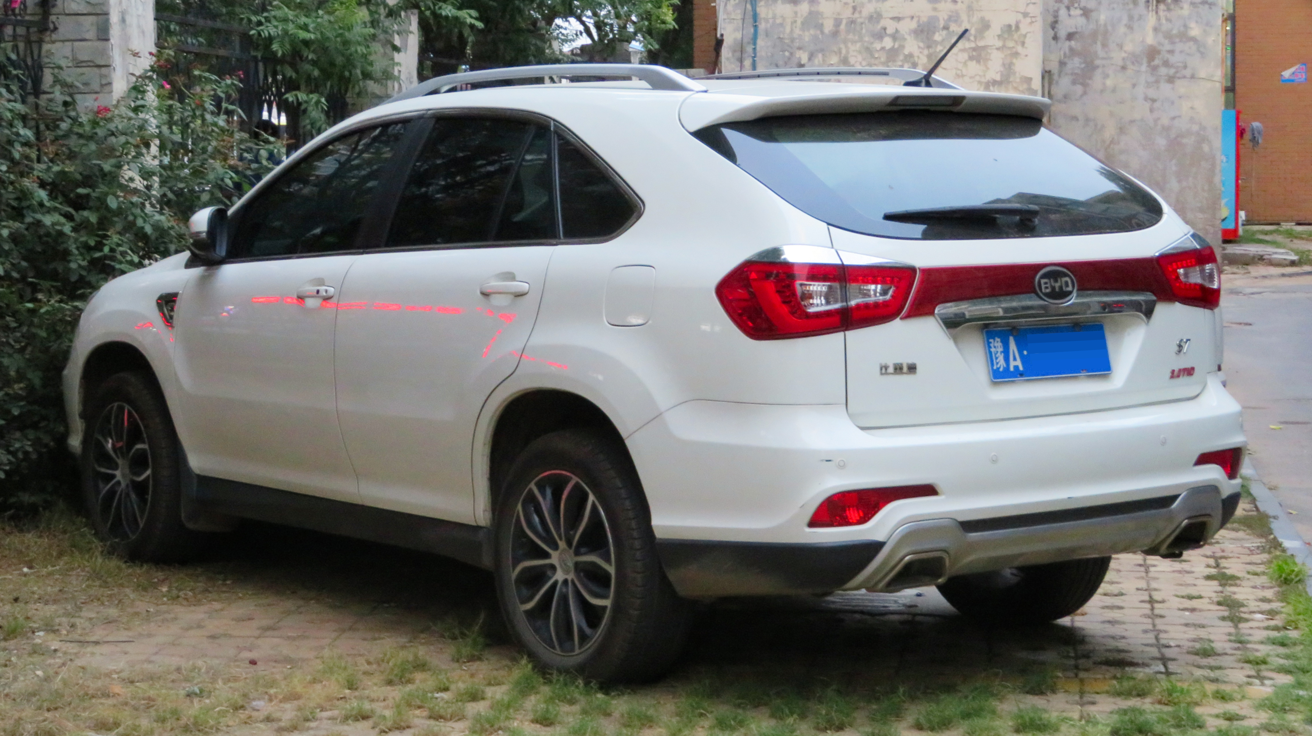 A 2016 BYD S7 photographed in Luolong District, Luoyang, Henan province, China